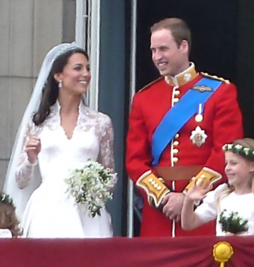 The British royal family on Buckingham Palace balcony after Prince William and Kate Middleton were married. Kate wears a wedding gown by Sarah Burton.